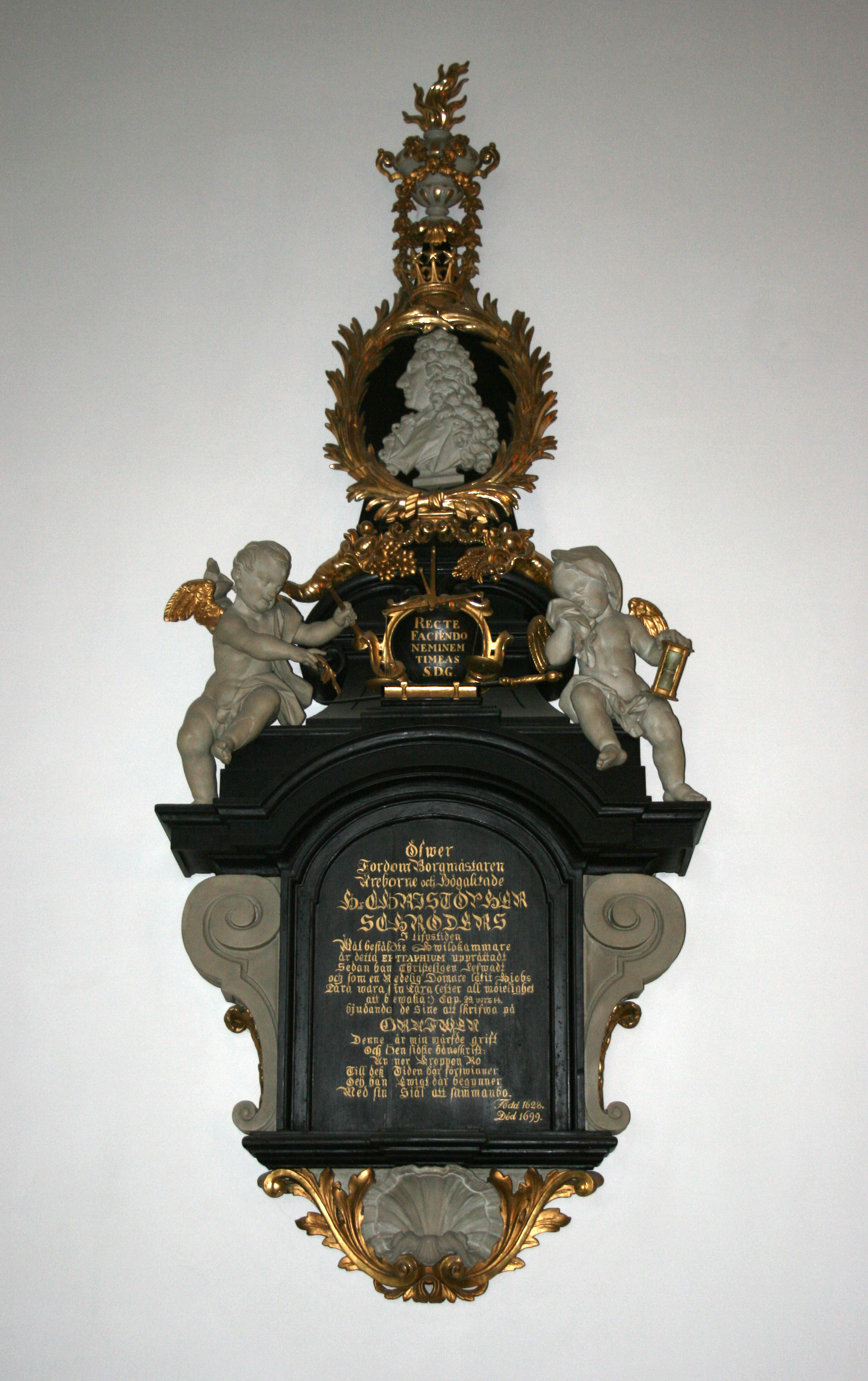 Epitaph for Christopher Schröder, mayor of Karlshamn, Sweden